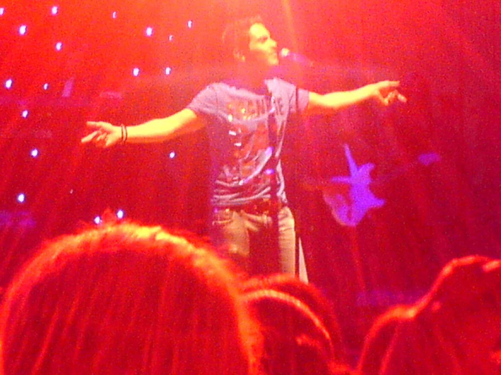 Mihalis Hatzigiannis at a concert in Stuttgart, Germany